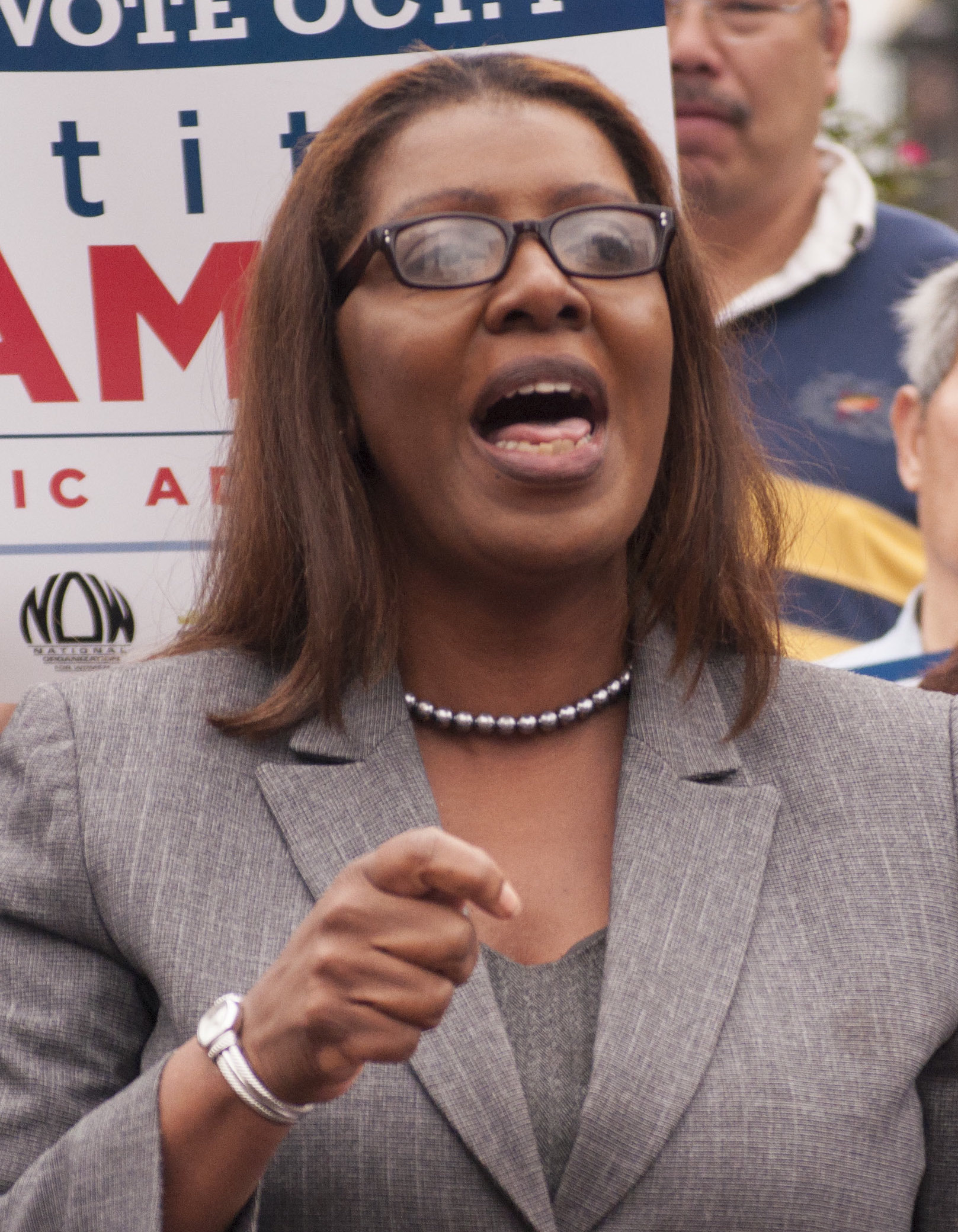 NYC Public Advocate candidate Letitia James at a rally, September 26, 2013